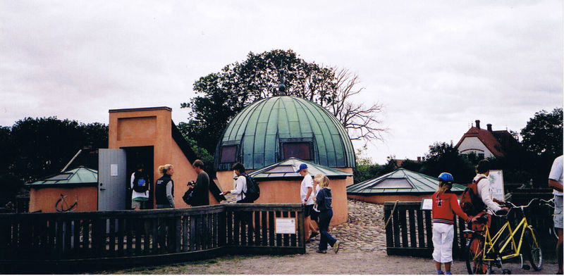 Tycho Brahe's Stjerneborg observatory on the island of Hven, restored. 2005